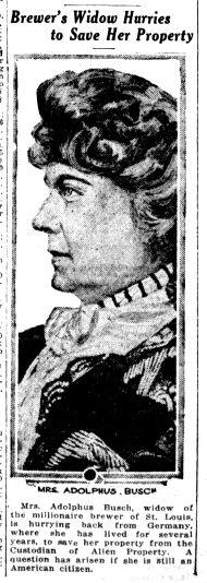 Elise "Lilly" Eberhard Anheuser, newspaper photo